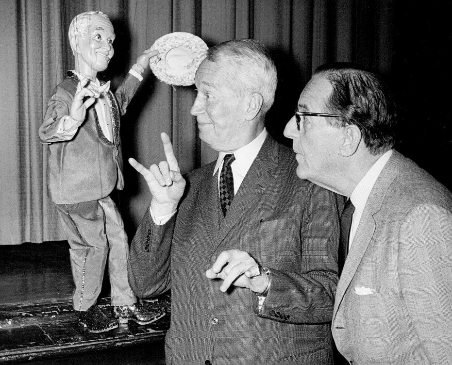 Photo of Maurice Chevalier and Stanley Holloway as they regard the Chevalier marionette from Sid and Marty Krofft's Les Poupées de Paris. All were guests on The Bell Telephone Hour in December 1964.